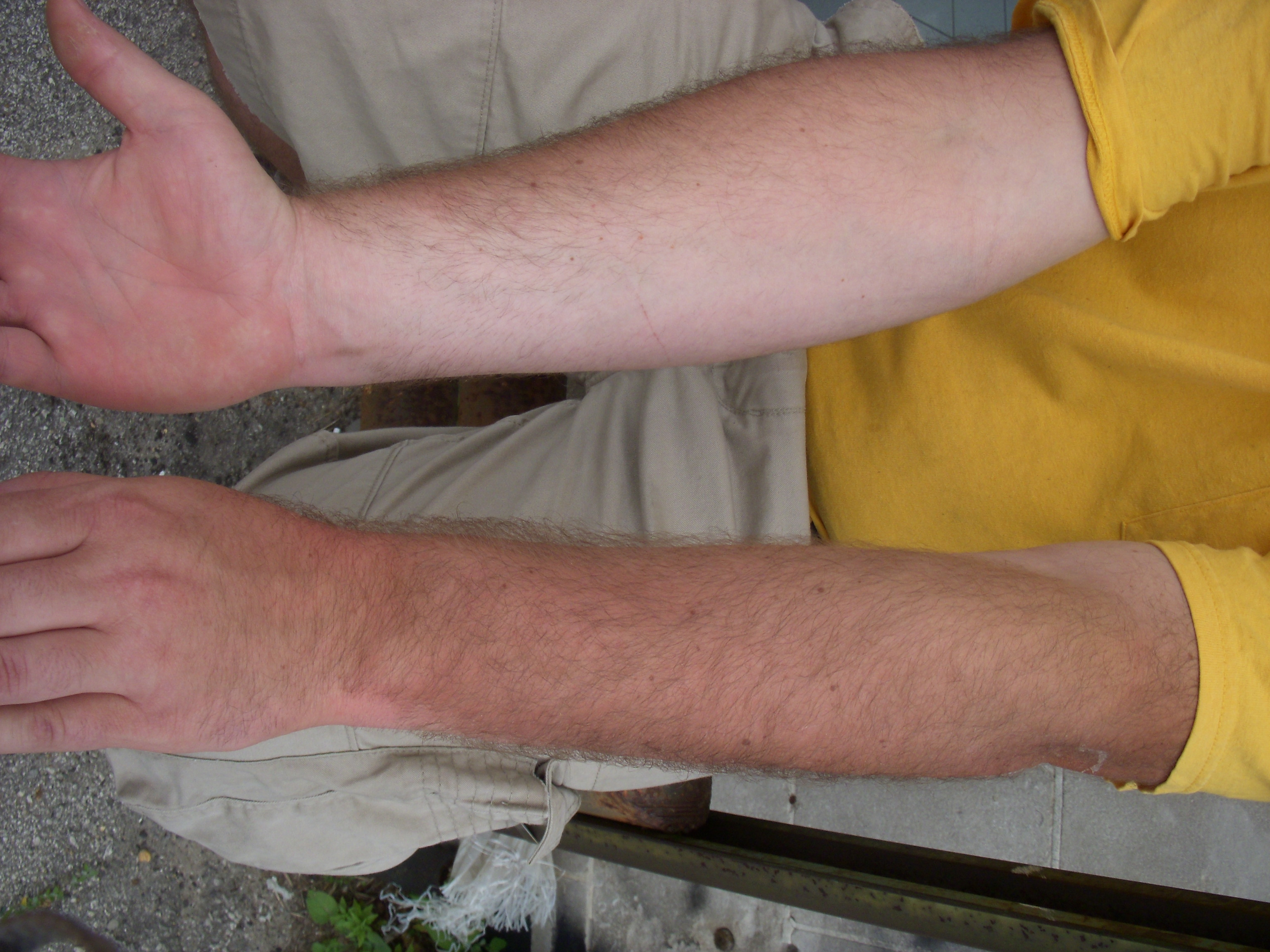 Uneven tanning on the underside of the forearms